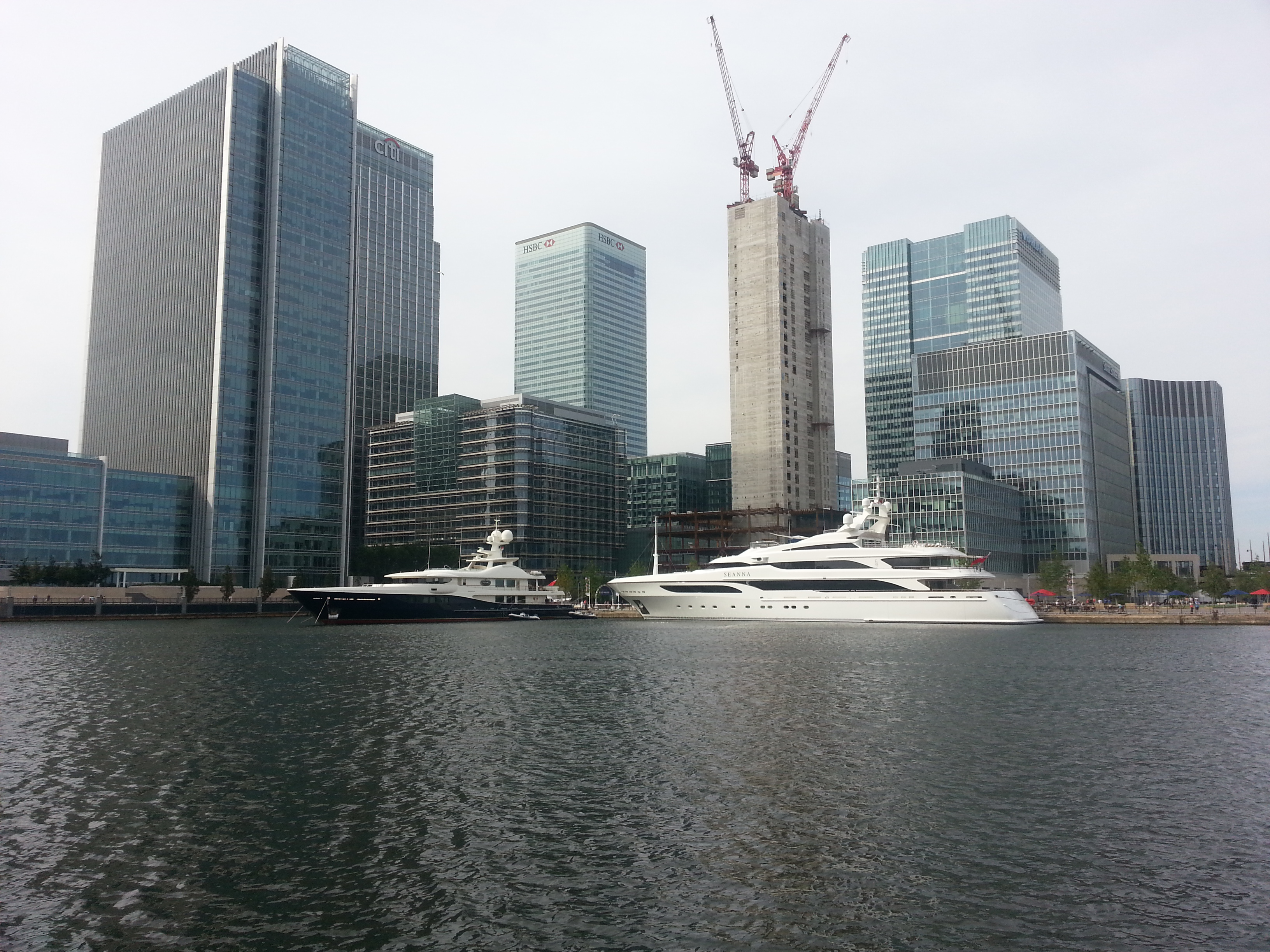 boats docked at canary wharf marina during London 2012 games